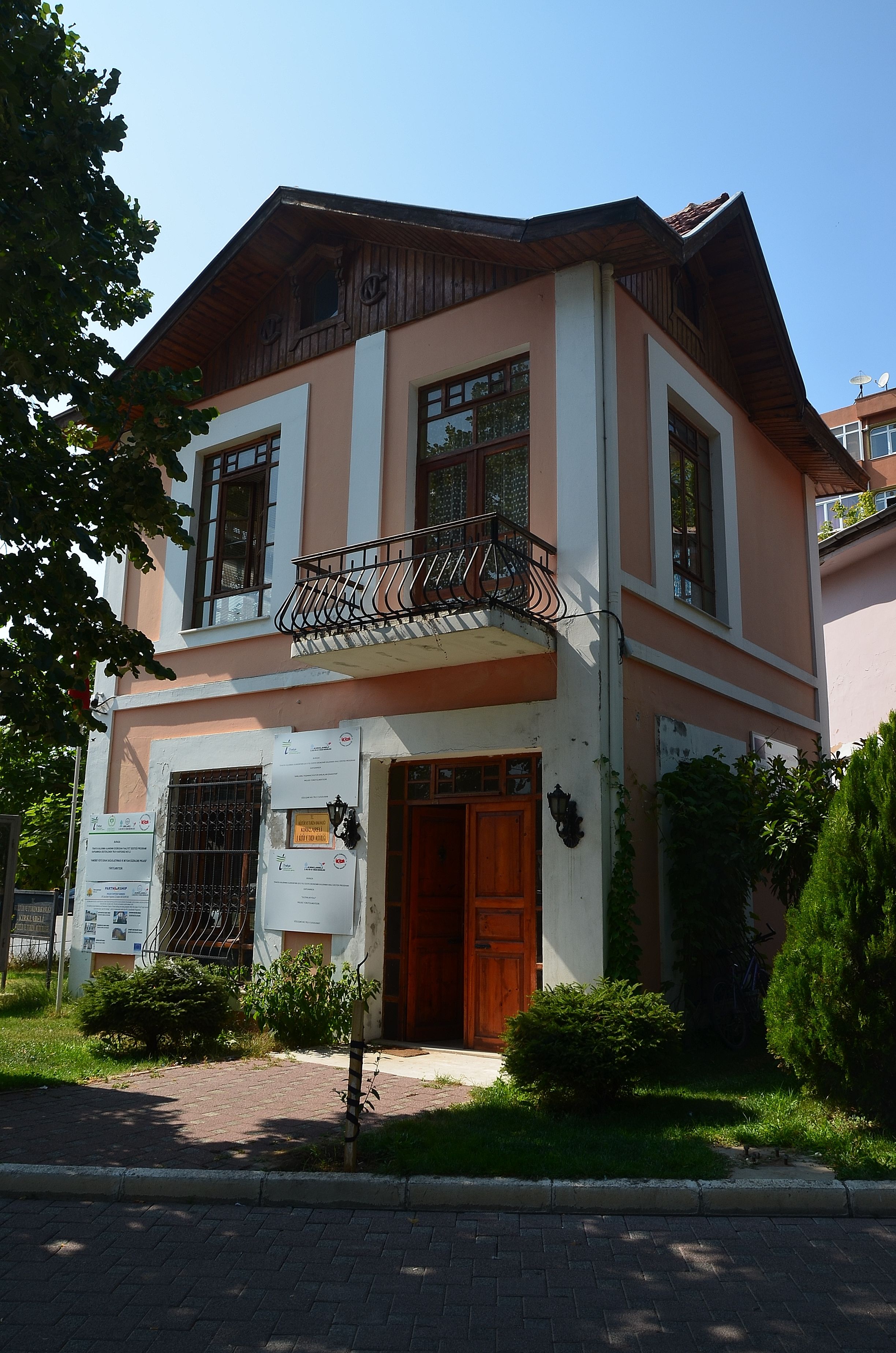 Culture and Tourism Office in Kırklareli, Turkey